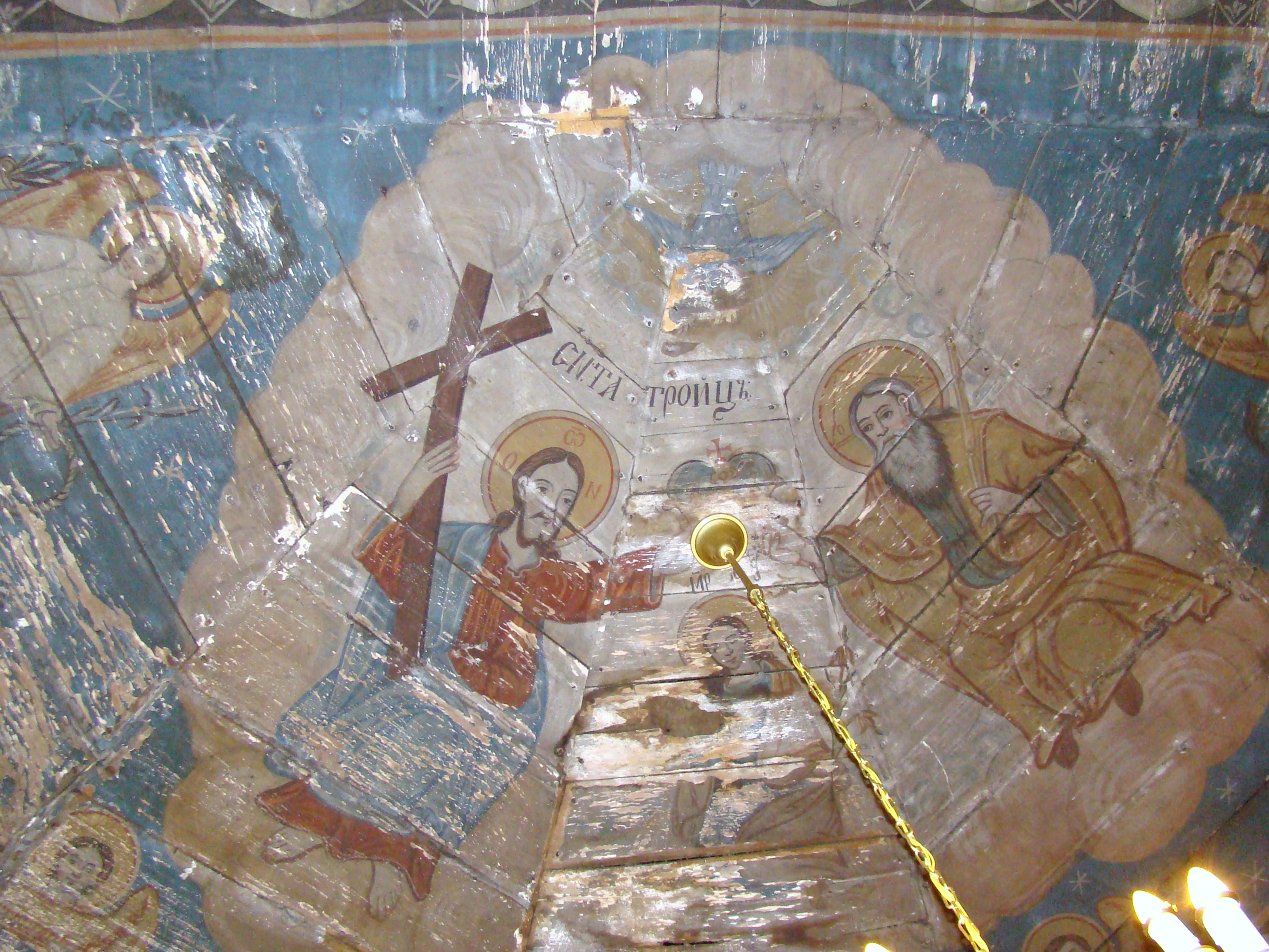 Wooden church in Roșia Nouă, Arad county, Romania